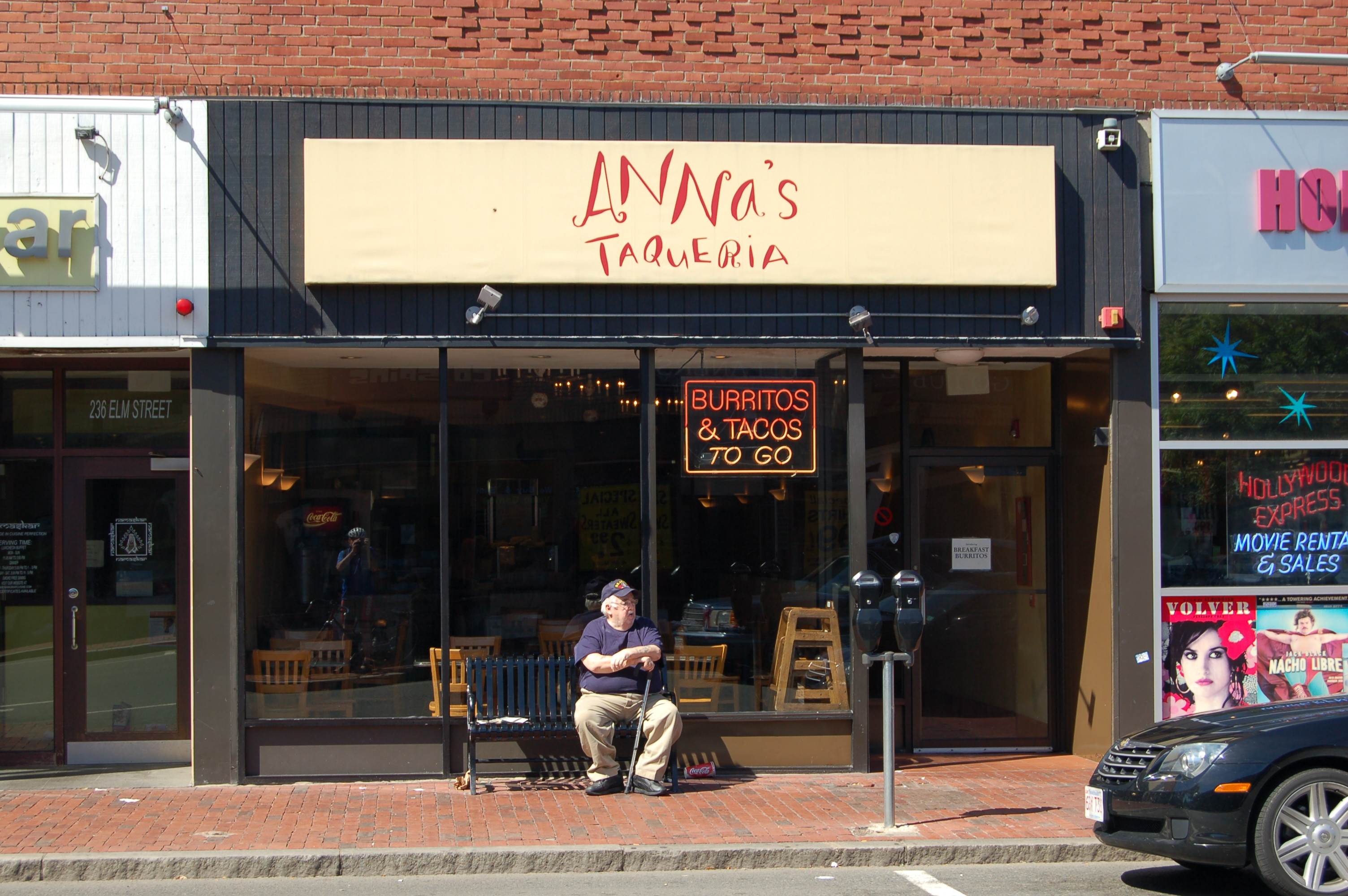 Anna's Taqueria in their Davis Square, Cambridge location